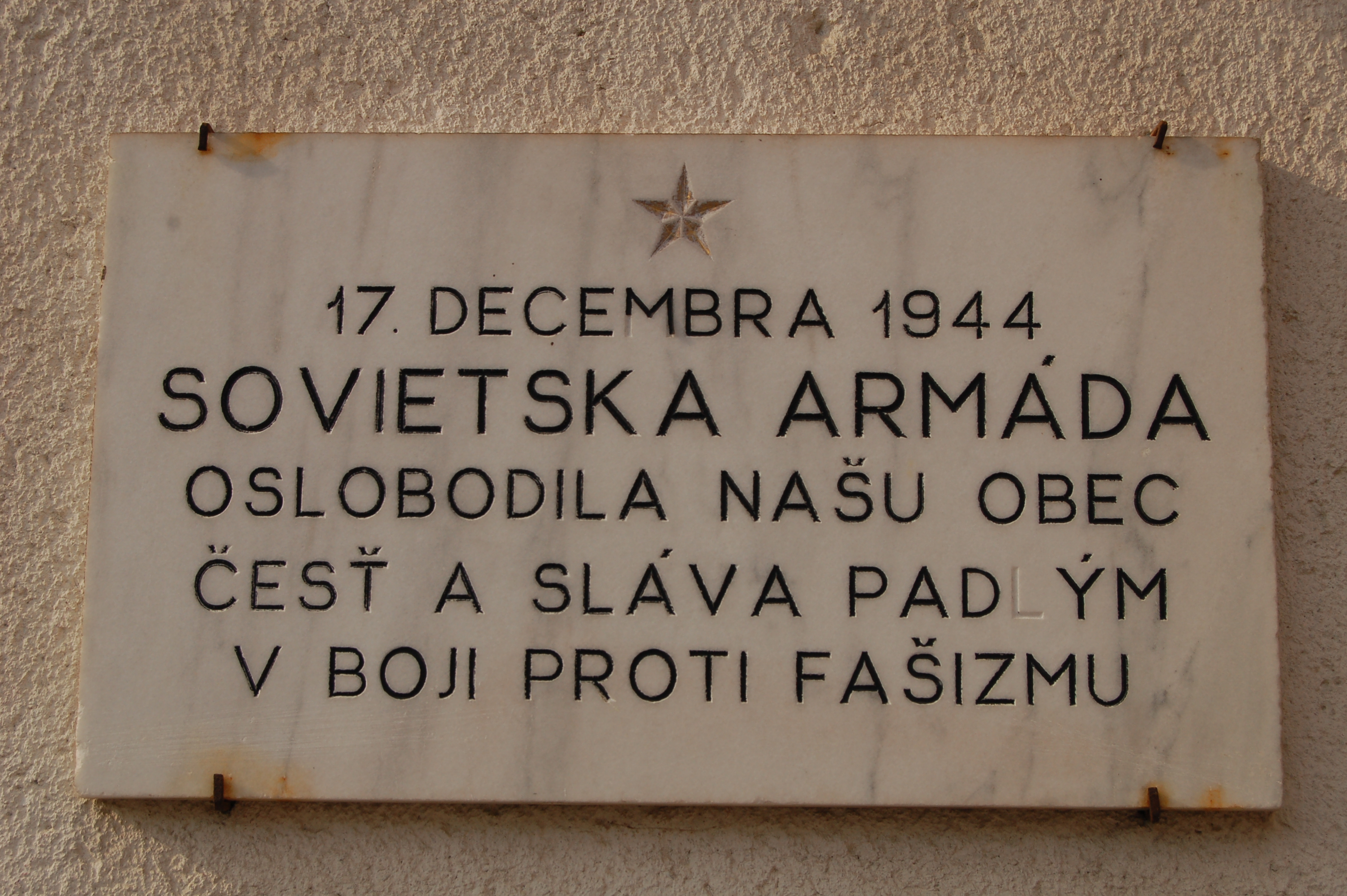 Liberation by red army